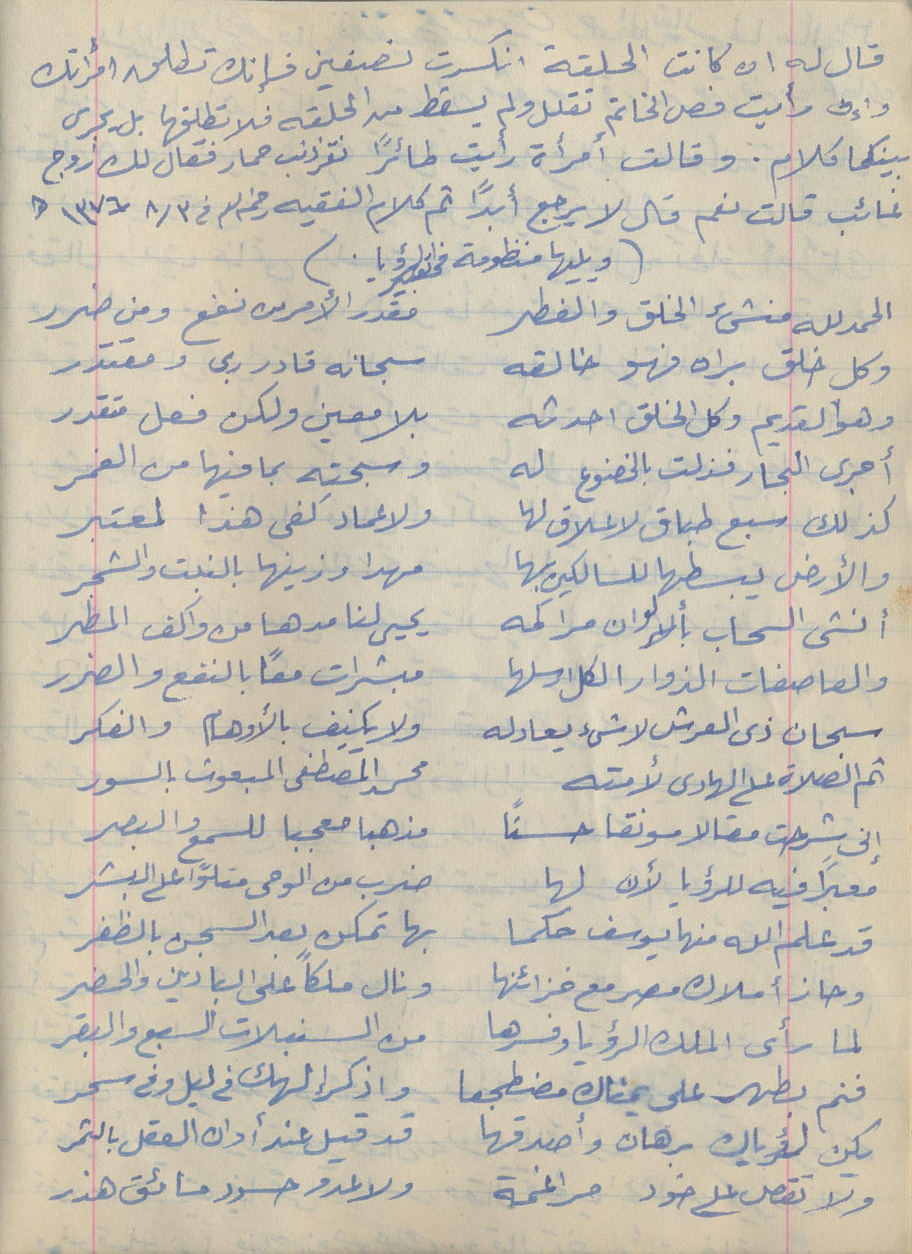 نموذج من خطه - قصيدة ابن سيرين